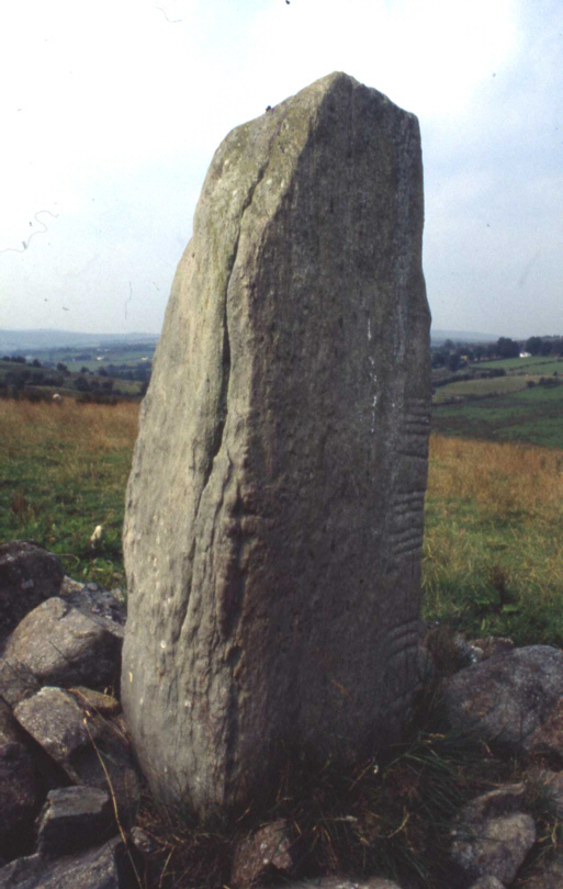 Aghascrebagh Ogham Stone, CIIC 317, near Greencastle, County Tyrone – about 500 AD